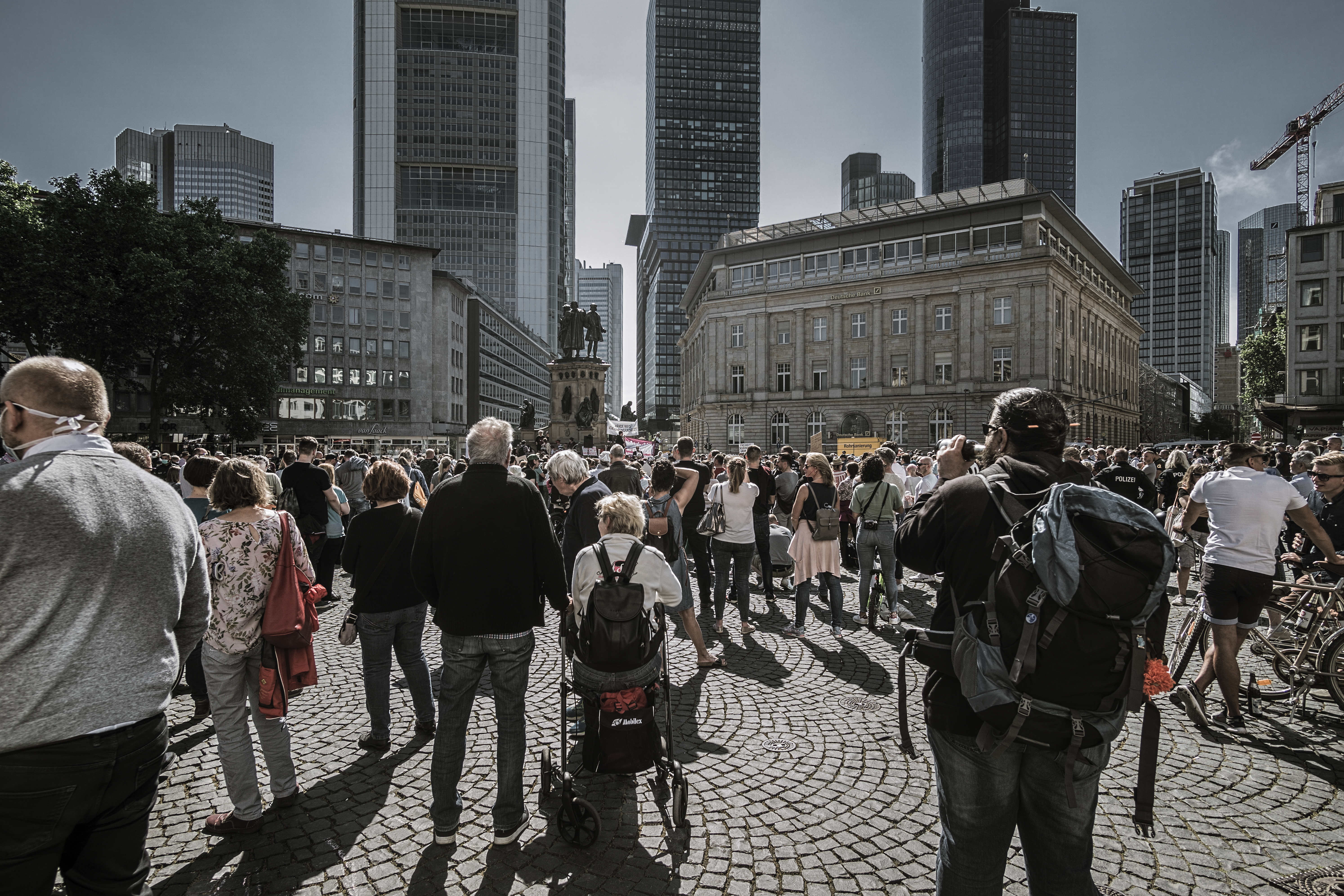 Protest against corona measures in Frankfurt am Main